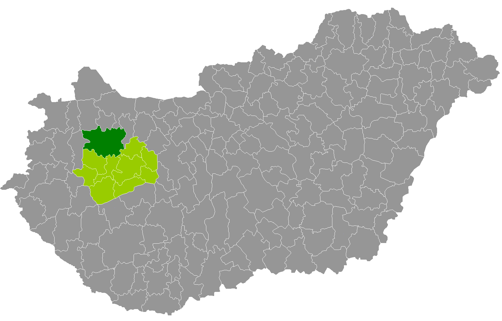 Location of Pápa District, Veszprém, Hungary